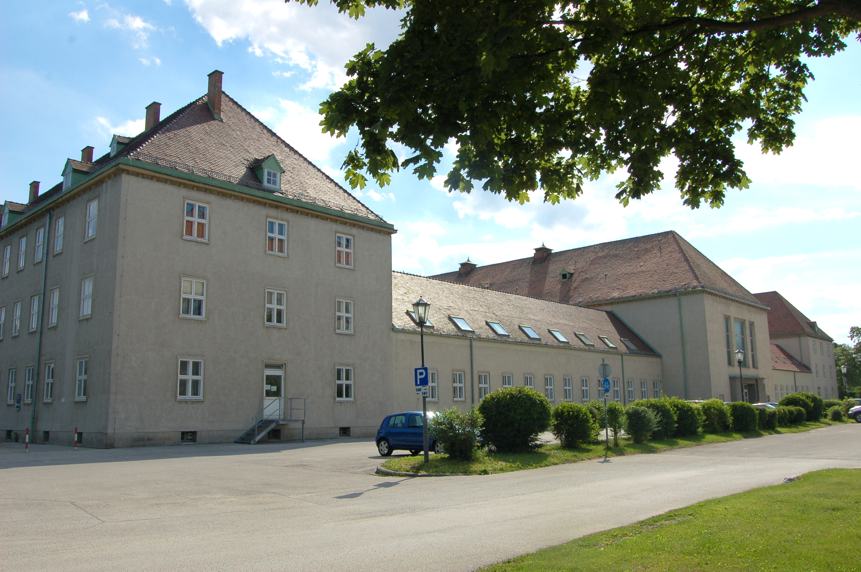 Daun-Kaserne (Daun barracks) was built opposite of Wiener Neustadt Castle in 1939 and 1940 in Wiener Neustadt, Lower Austria